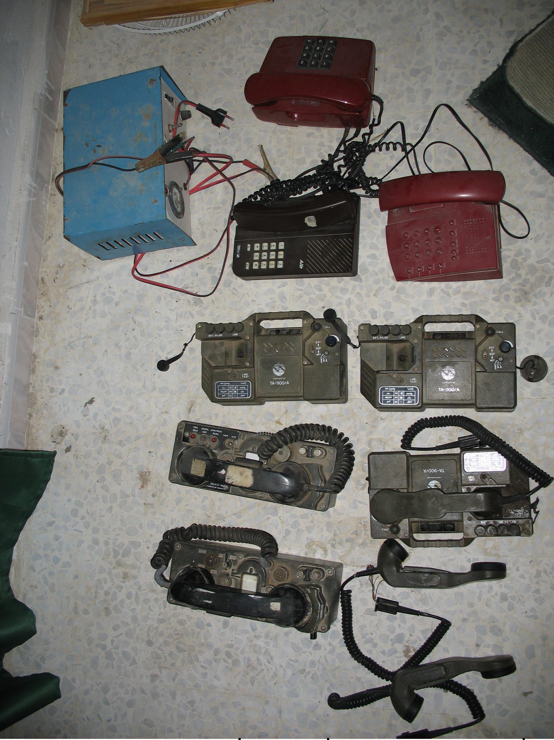 July 25, 2006 Hezbollah operated communication devices found during IDF operations in Bint Jbeil in southern Lebanon.